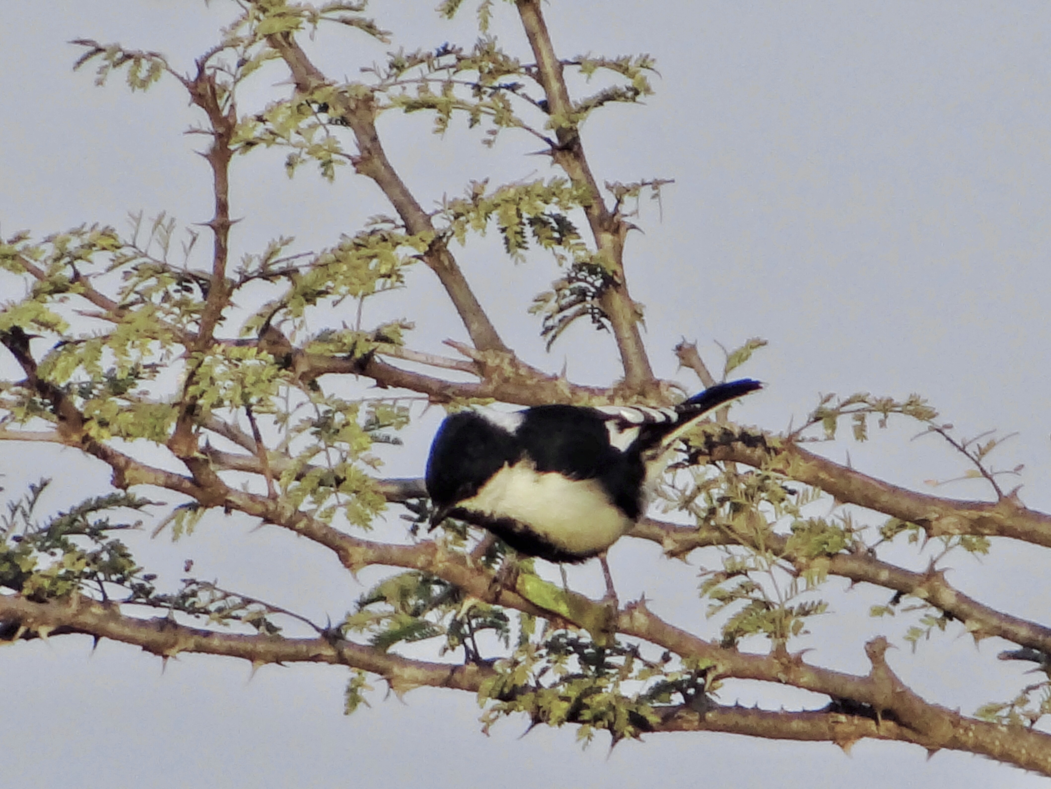 A bird endemic to India